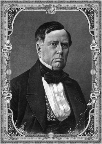 Self-portrait of Mariano Arista Nuez, Lithograph (1870-1907).